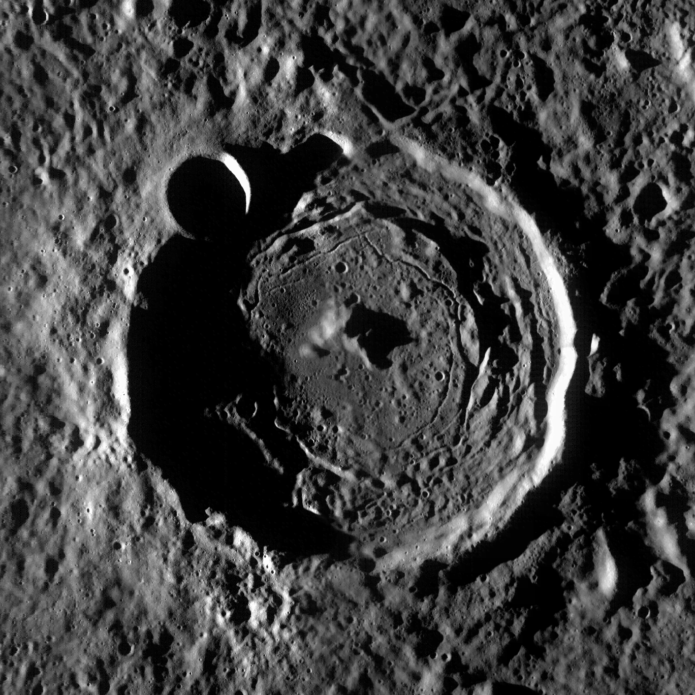 Crater Taruntius on the Moon, on the northern shore of Mare Fecunditatis. Photo by Lunar Reconnaissance Orbiter, made with Wide Angle Camera on 3 January 2010 from altitude 42 km. Sun elevation is 4.4-4.5°. Width of the photo is 90 km, north is up.